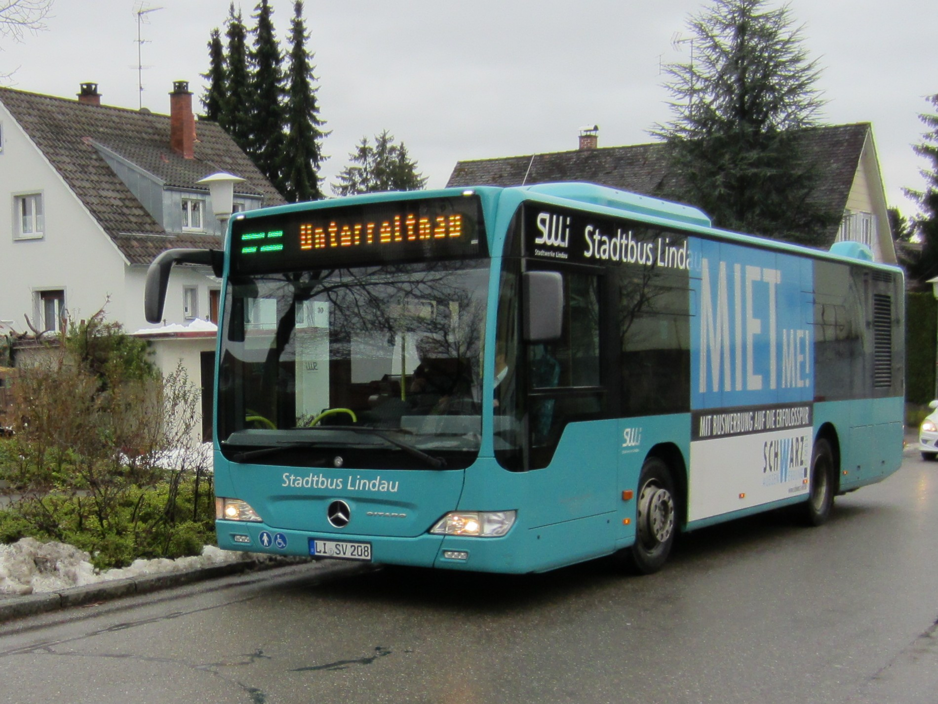 Local city bus in Lindau (Mercedes-Benz Citaro).